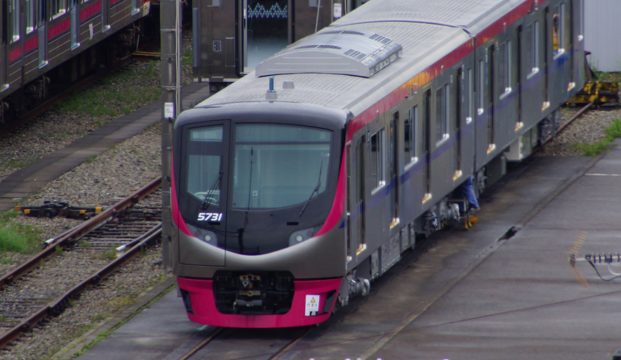 Cars of the first Keio 5000 series EMU set 5731 at Wakabadai Depot in Inagi, Tokyo, Japan, following delivery by road from the J-TREC factory in Yokohama a few days earlier